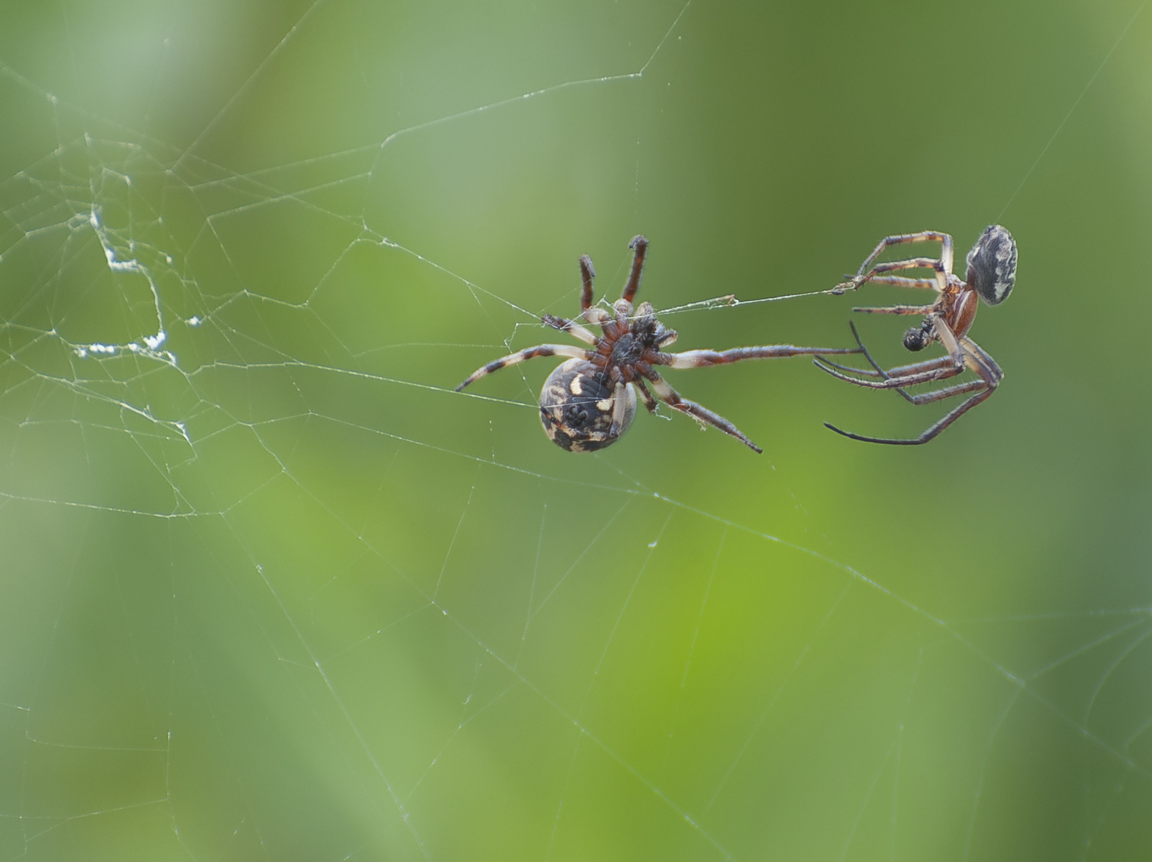 Larinioides cornutus, m (r) and f (l), picture taken in the salt marshes of the Venetian Lagoon, Italy. Thanks to the members of Wikipedia:RBIO/B for the identification.